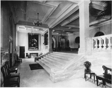 Digital Image Number: I0004006.jpg Title: Interior of Government House, Ottawa Date: [ca. 1950] Place: Ottawa (Ont.) Creator: Canadian Pacific Railway Company Format: Black and white print Reference Code: C 310 Item Reference Code: C 310-1-0-26 Subject: Government facilities,Interiors